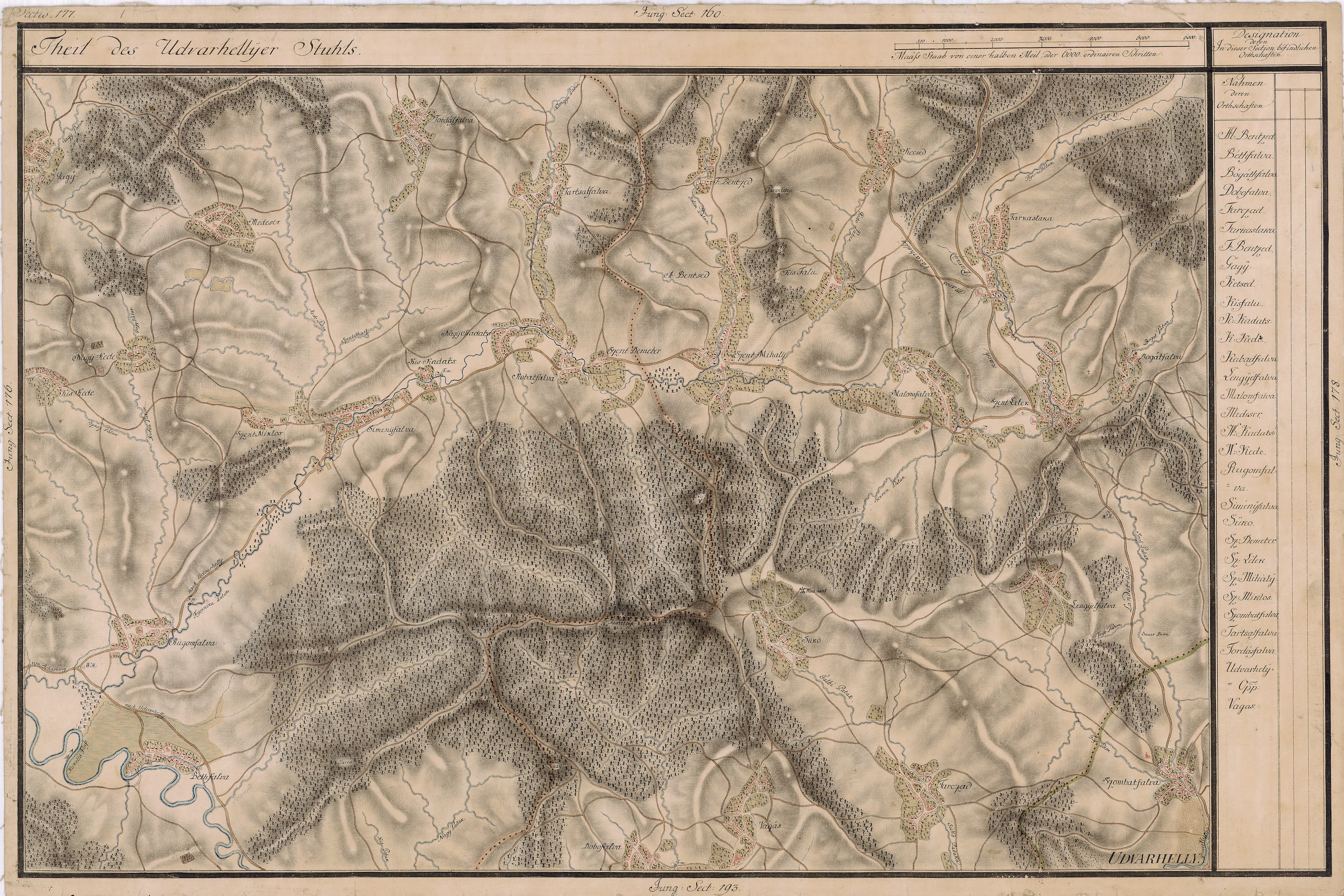 Grand Duchy of Transylvania, 1769-1773. Josephinische Landaufnahme pg.177